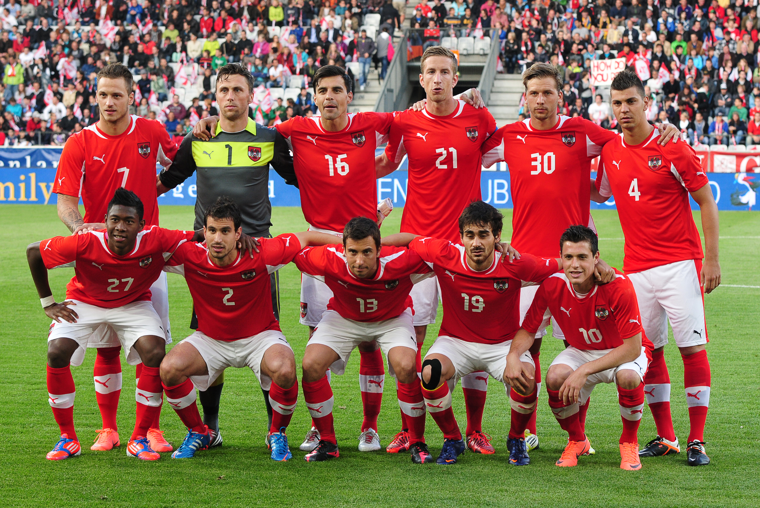 Exhibition game Austria vs. Romania at 5st. June 2012